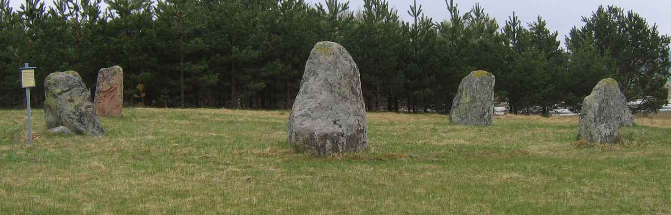 A photo of the Stone circles from the Iron age, Which were a characteristic burial custom of southern Scandinavia, especially on Gotland and in Götaland during the Pre-Roman Iron Age and the Roman Iron Age.